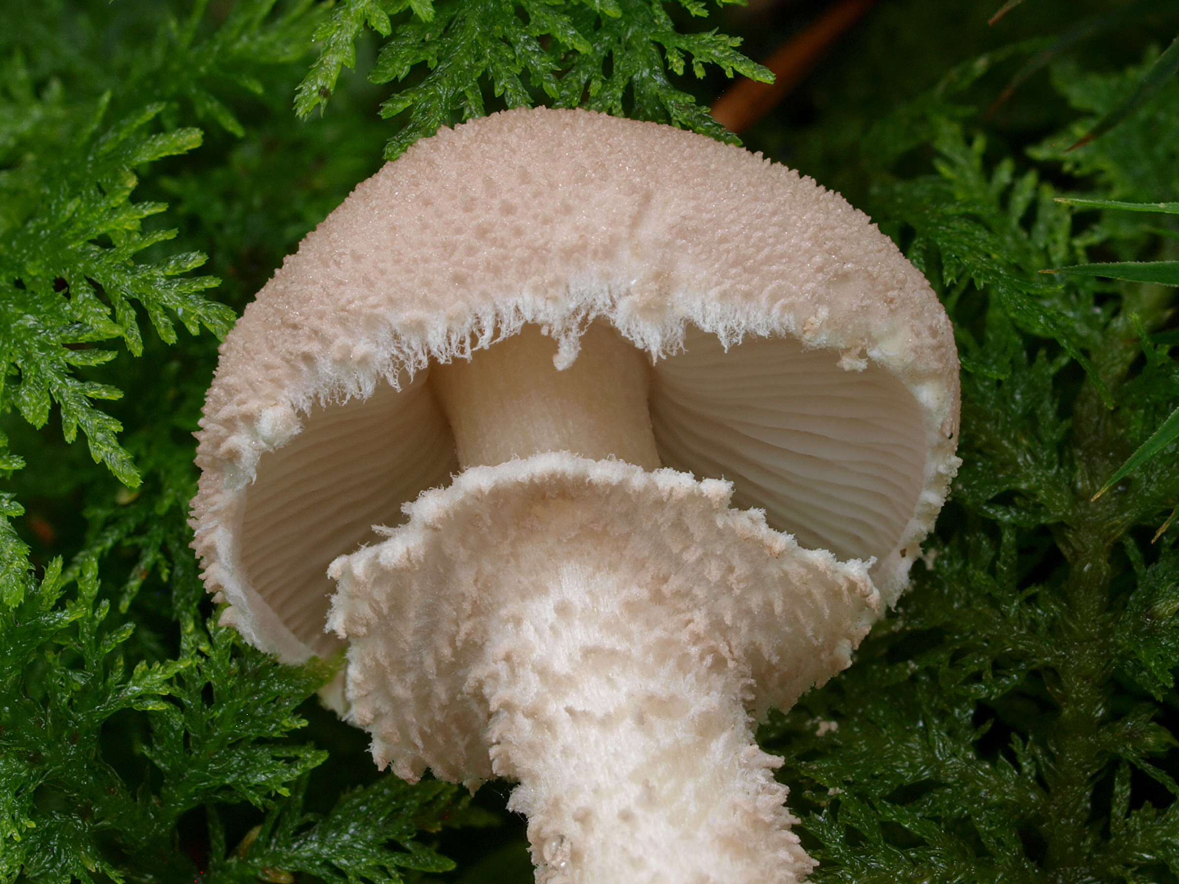 Pearly Powdercap (Cystoderma carcharias)